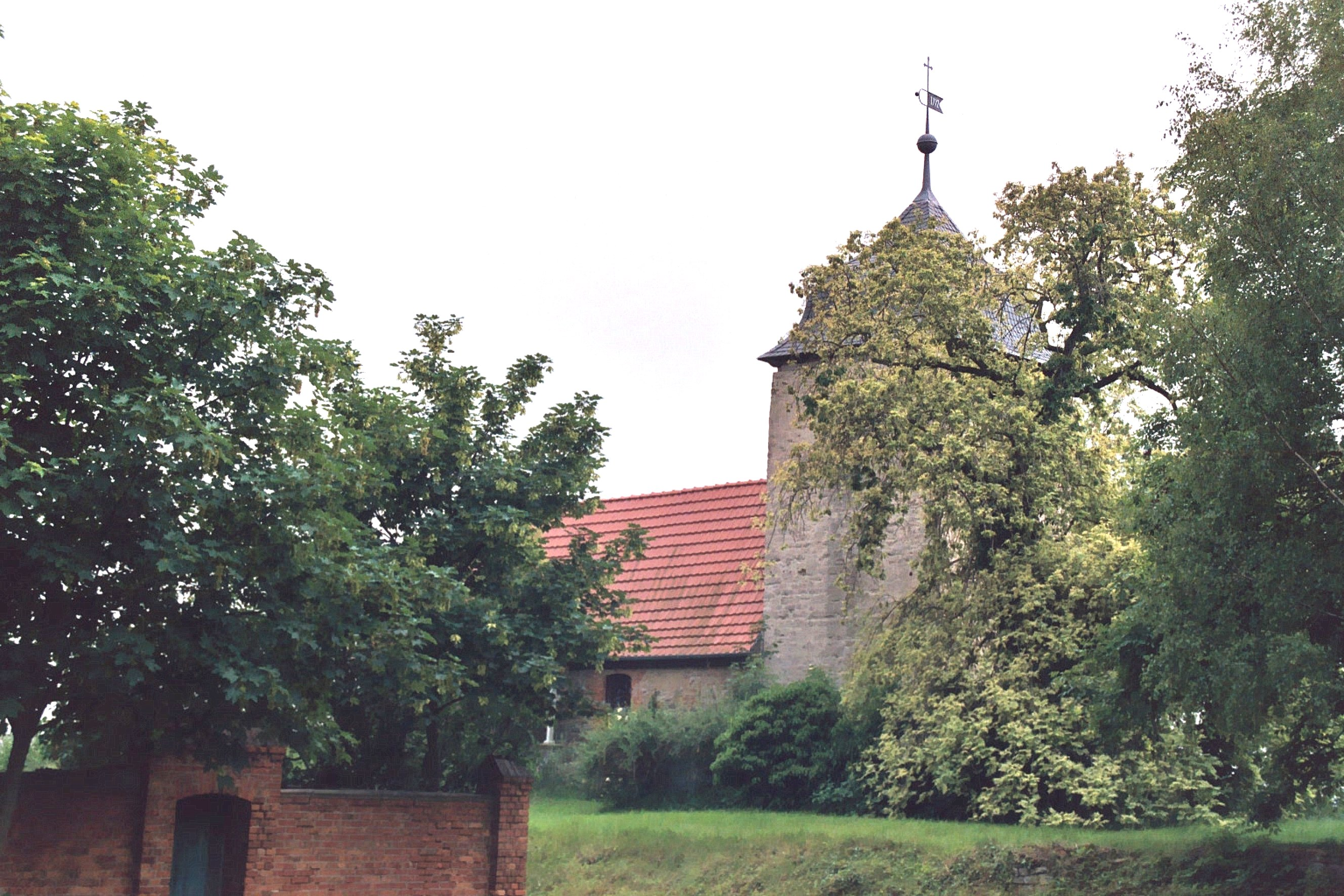 Neehausen (Seegebiet Mansfelder Land), the village church